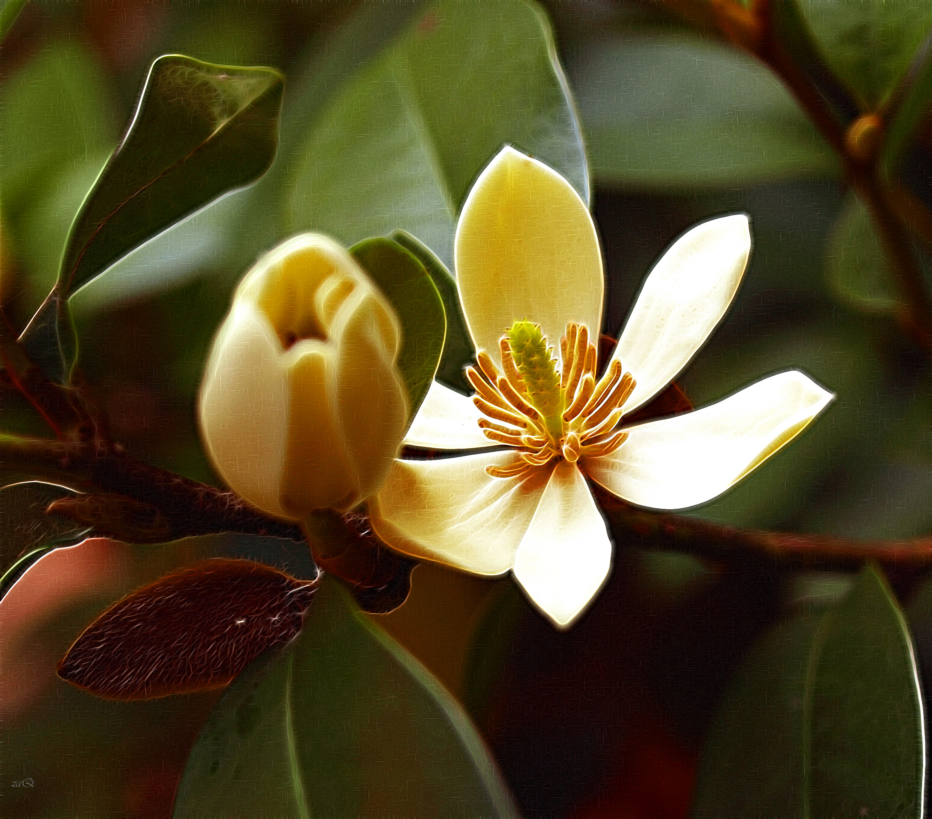 Magnolia figo, explored on 31st July. No Multi-group invites or large glitter graphics please! None is better